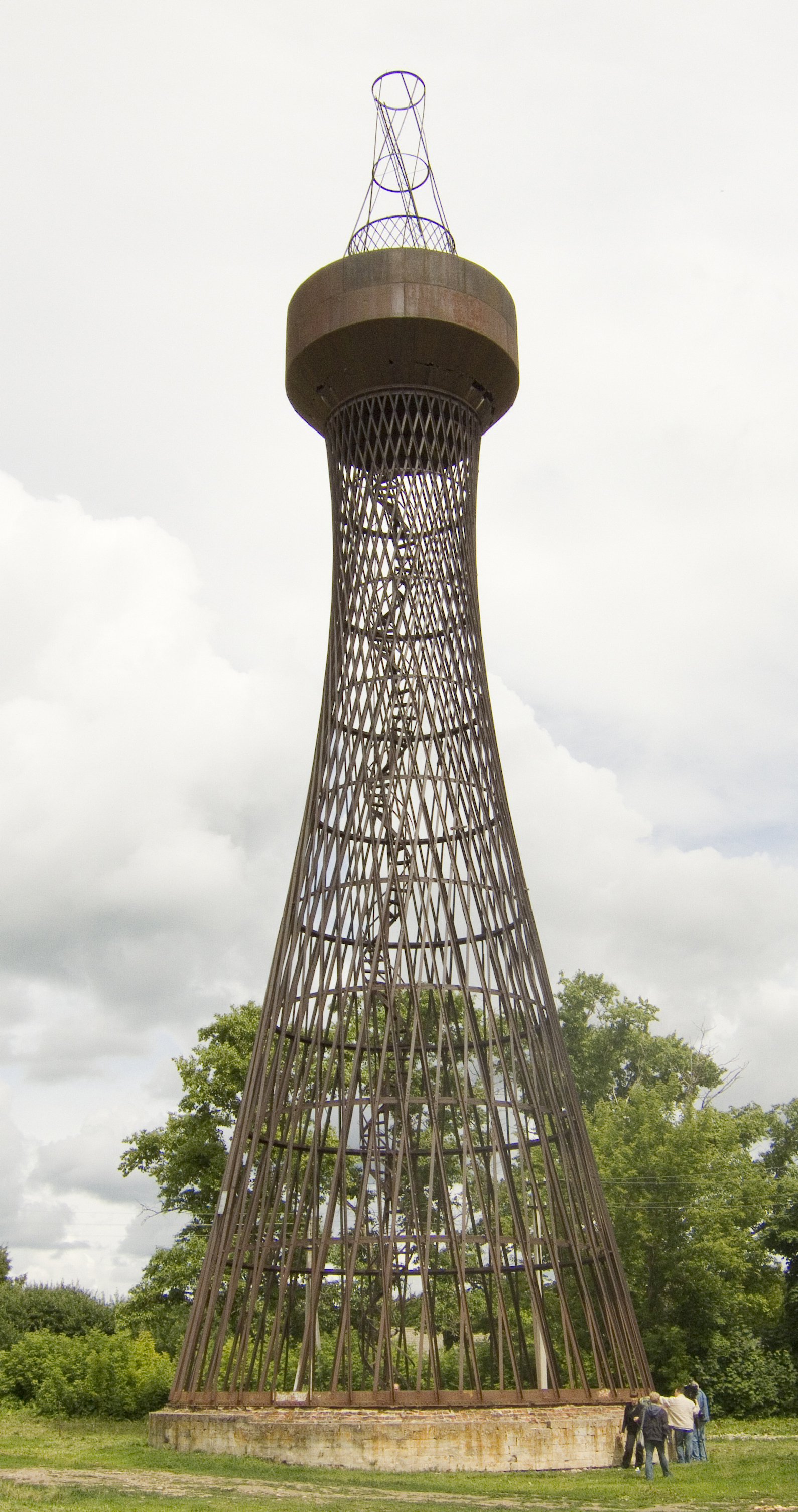 The World's First Hyperboloid Lattice Shell structure. Russian engineer and architect Vladimir Shukhov was the first in the world to invent and use in construction hyperboloid towers. For the 1896 All-Russia industrial and art exhibition in Nizhniy Novgorod Shukhov built the steel lattice 37-meter tower, which became the first hyperboloid structure in the world. The astonishing hyperboloid lattice structure caused delight of the European specialists ("The Nijni-Novgorod exhibition: Water tower, room under construction, springing of 91 feet span", "The Engineer" magazine, 1897, № 19.3. - P.292-294). After the exhibition had closed, the openwork tower of rare beauty was bought by the well-known Maecenas of that time Yury Nechaev-Maltsov and placed in his estate Polibino, Lipetsk Oblast, where it has preserved until now under the state protection. In the subsequent years, V.G.Shukhov developed numerous structures of various lattice steel hyperboloids and used them in hundreds water towers, sea lighthouses, masts of warships and supports for power transmission lines. The hyperboloid structures appeared in Spain (Gaudi) and USA (battleship masts) only 10 years after the Shukhov's invention.